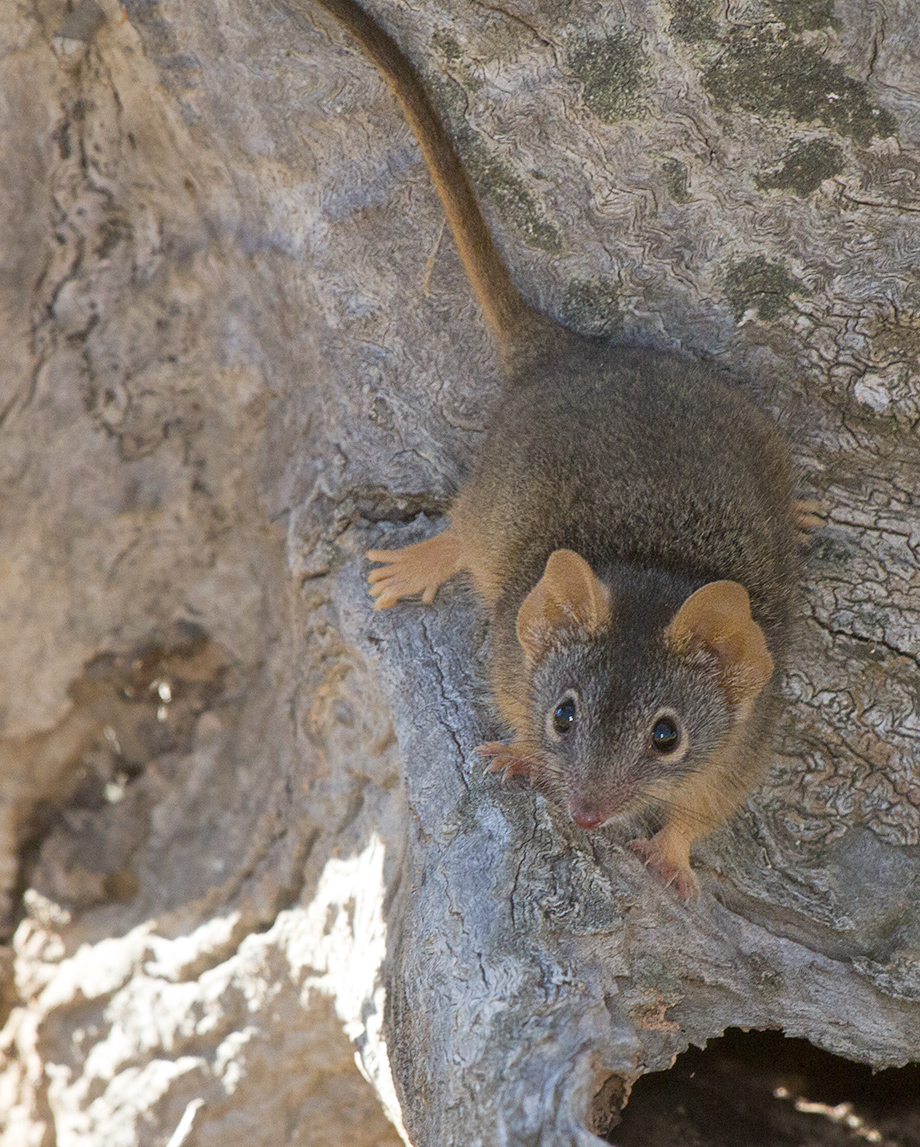 Strangways Vic. Whilst I was up on the ladder photographing the Striated Pardalotes taking food into their nest box, this little one popped out on the ground hunting a lizard. Only time for 2 quick shots.